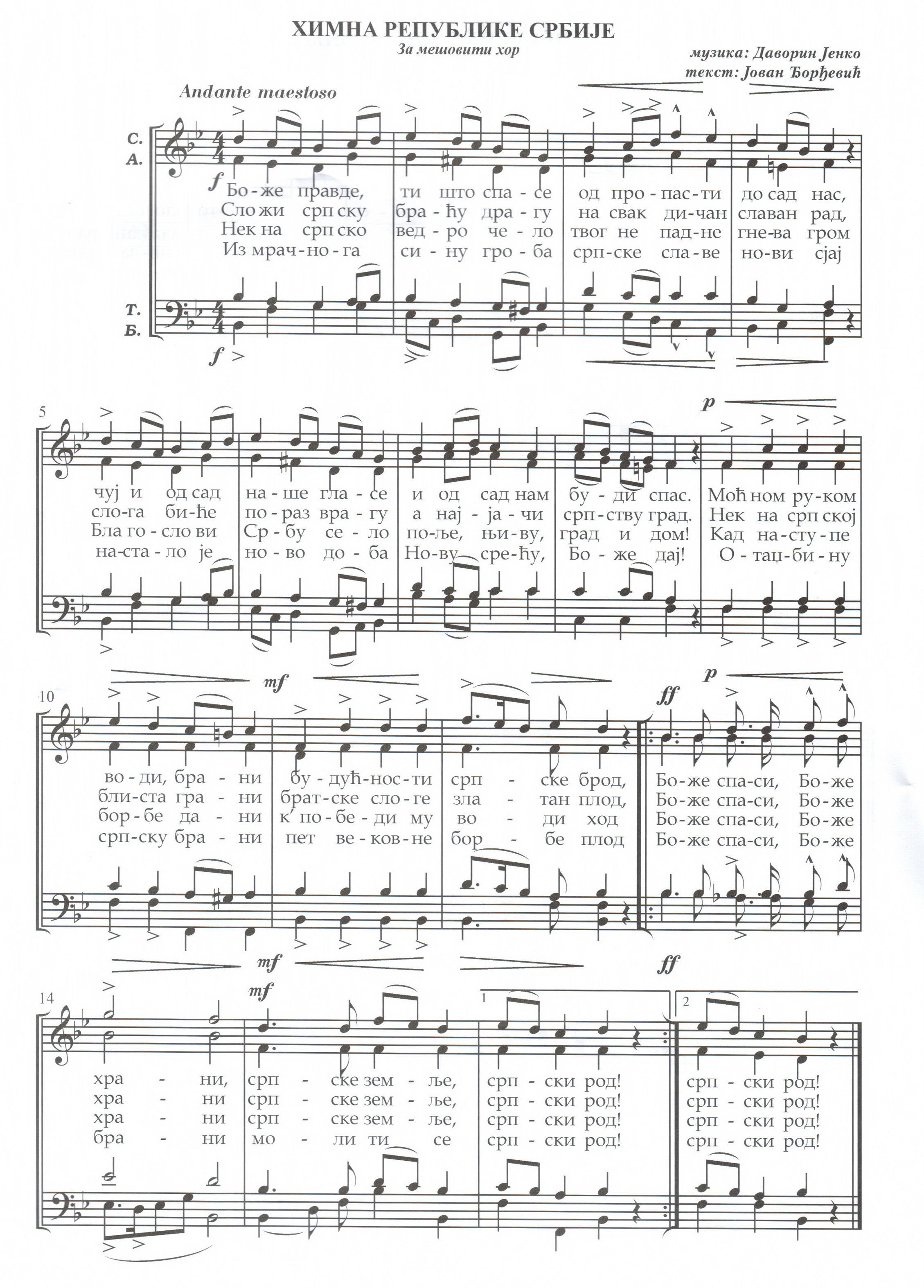 Sheet music of the anthem of the Republic of Serbia (for mixed choir), from theRegulation on the establishment of the original great and small arms, flags and original records of musical anthem, published in the Official Gazette of thethe Republic of of Serbia.